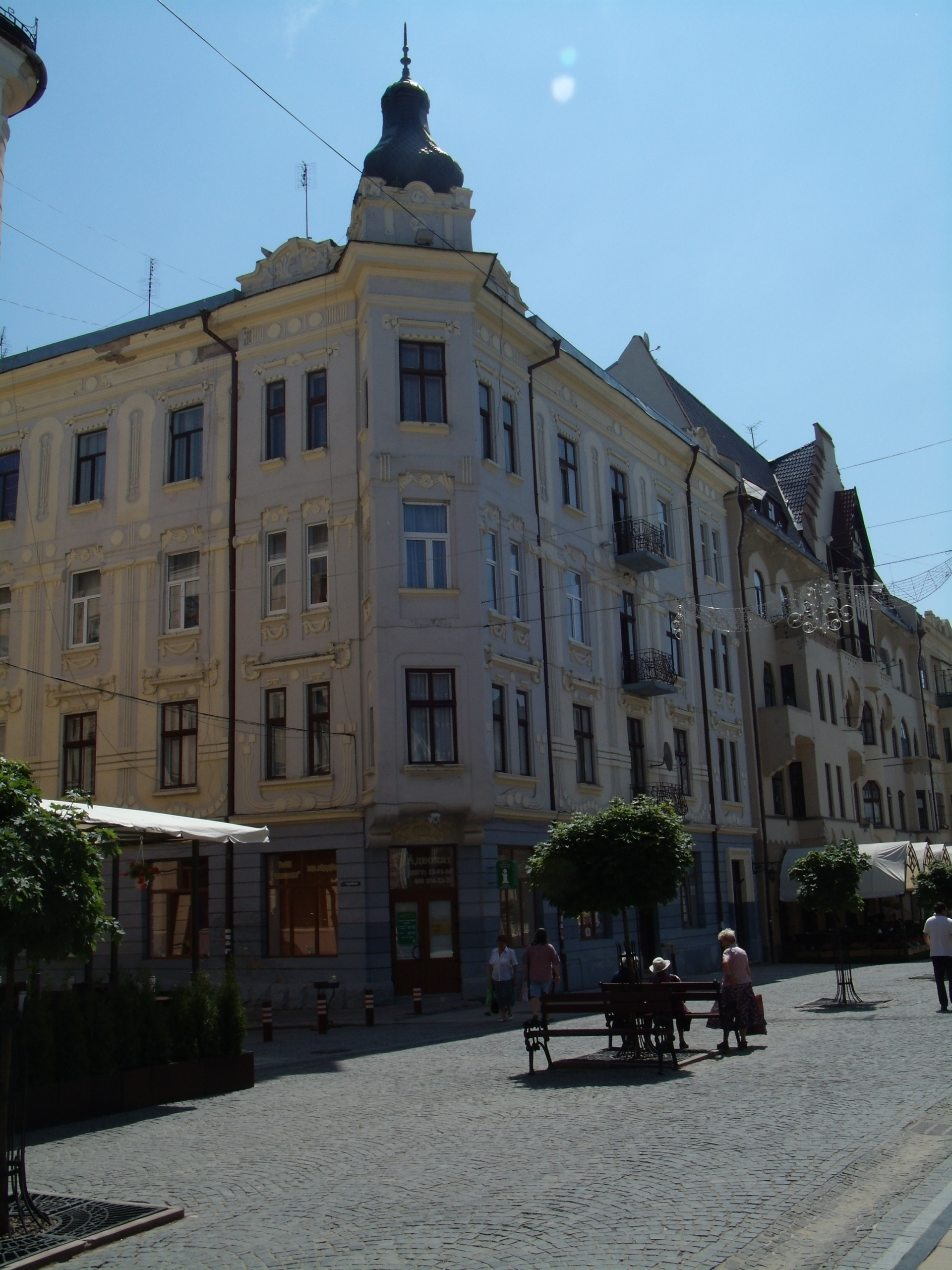 Chernivtsi, Kobylianska house 51